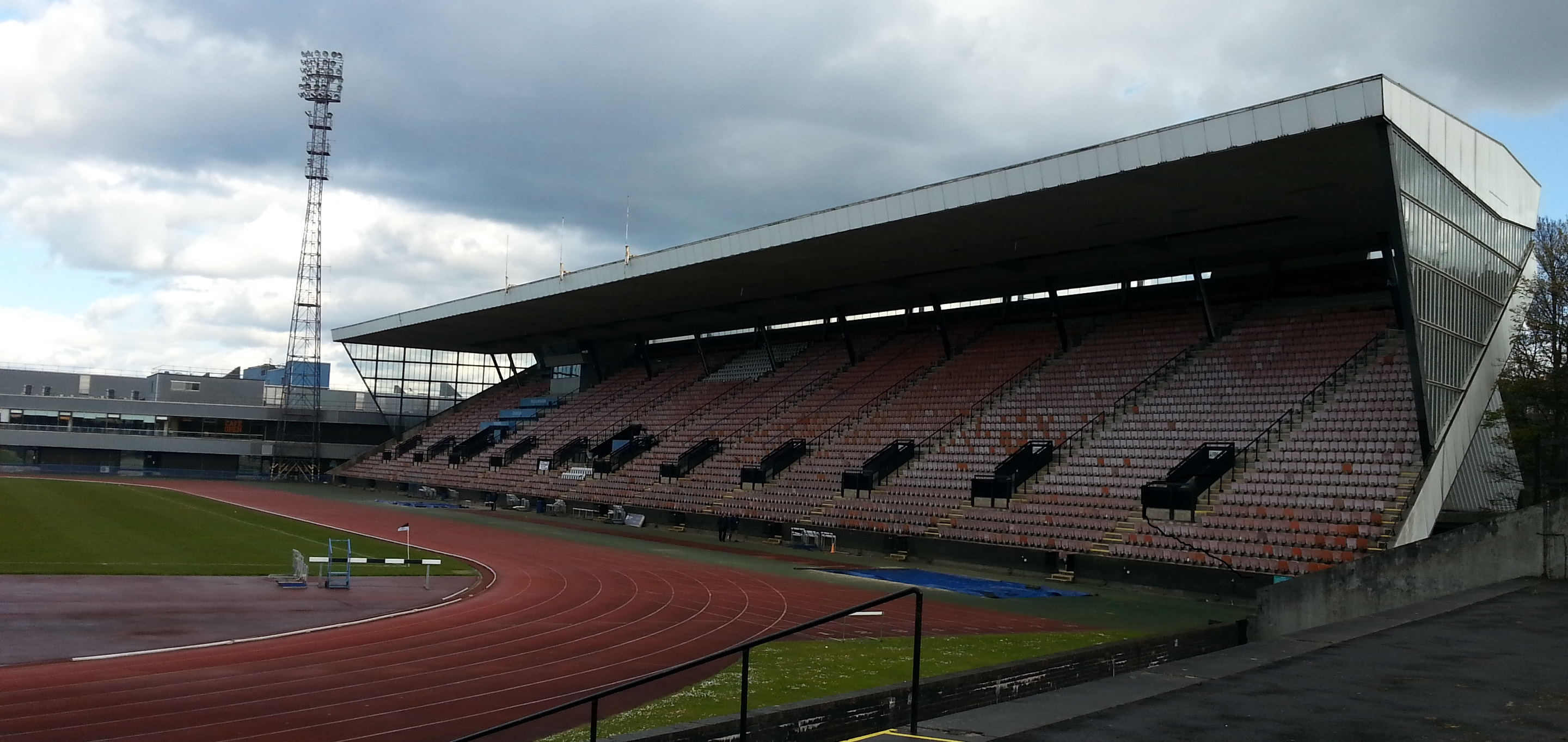 The main stand at Meadowbank Stadium in Edinburgh